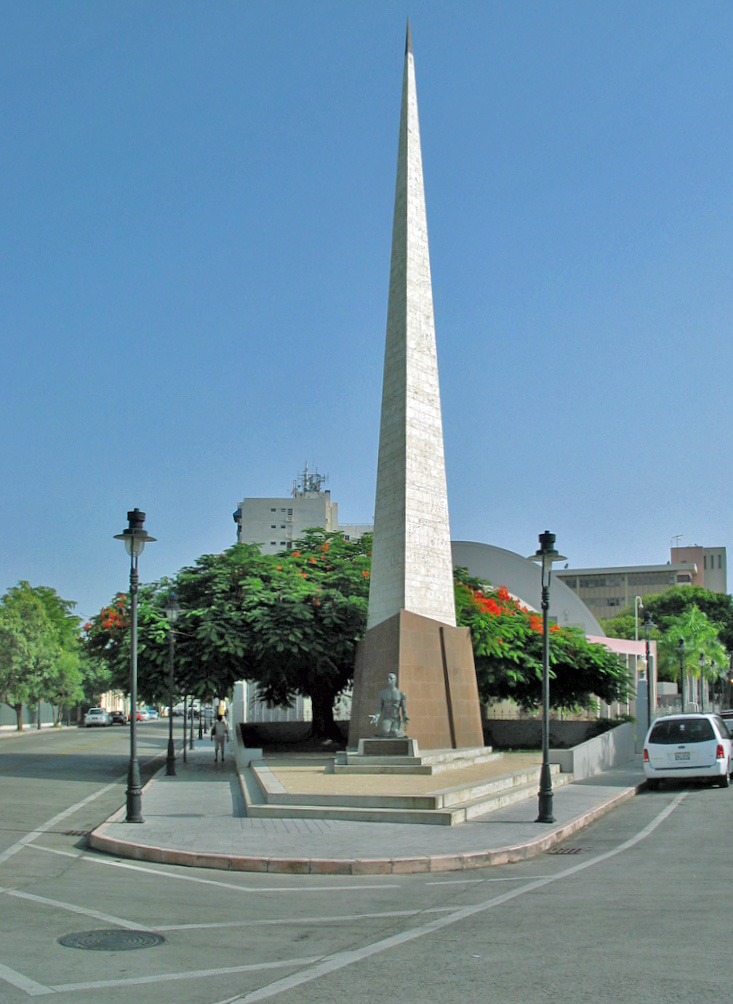 Abolition Park in Ponce, Puerto Rico, looking north